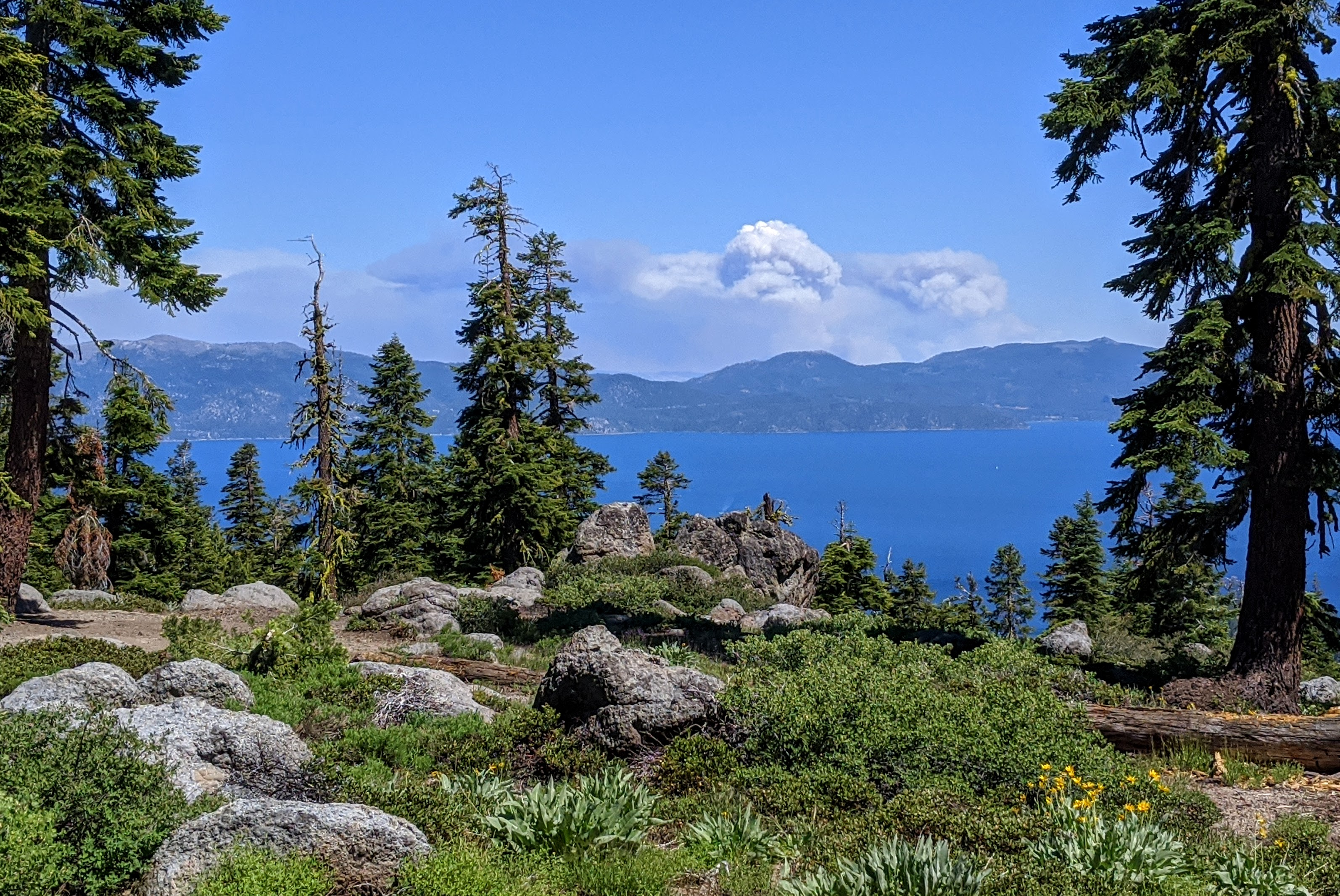 The Numbers Fire smoke plume, from near Gardnerville, Nevada, viewed across Lake Tahoe from Mount Watson, July 7, 2020